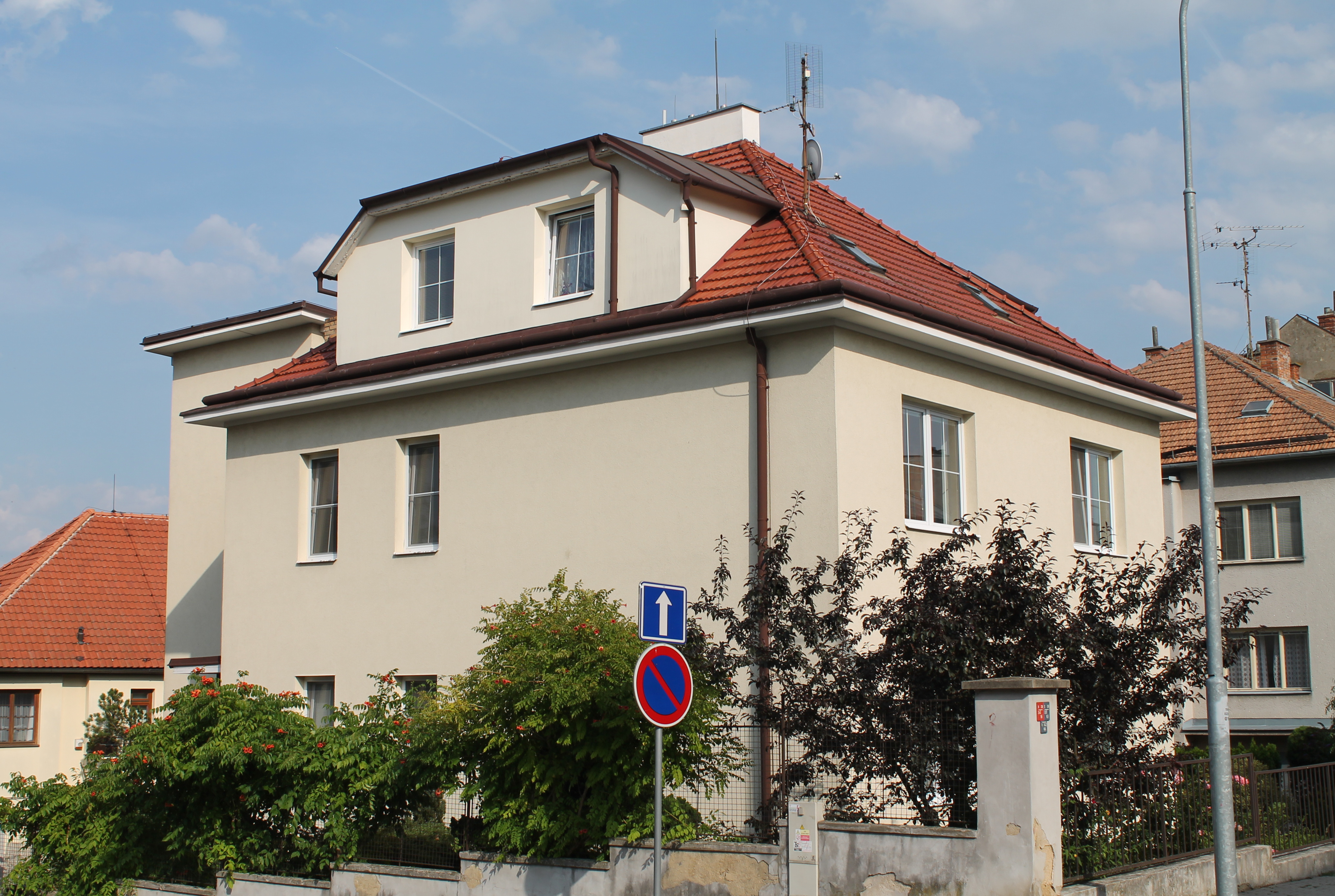 Monastery of the Sisters of St. Cyril and Methodius - Bílého 80/9 / Havlíčkova 80/30, Stránice, Brno, Czech Republic